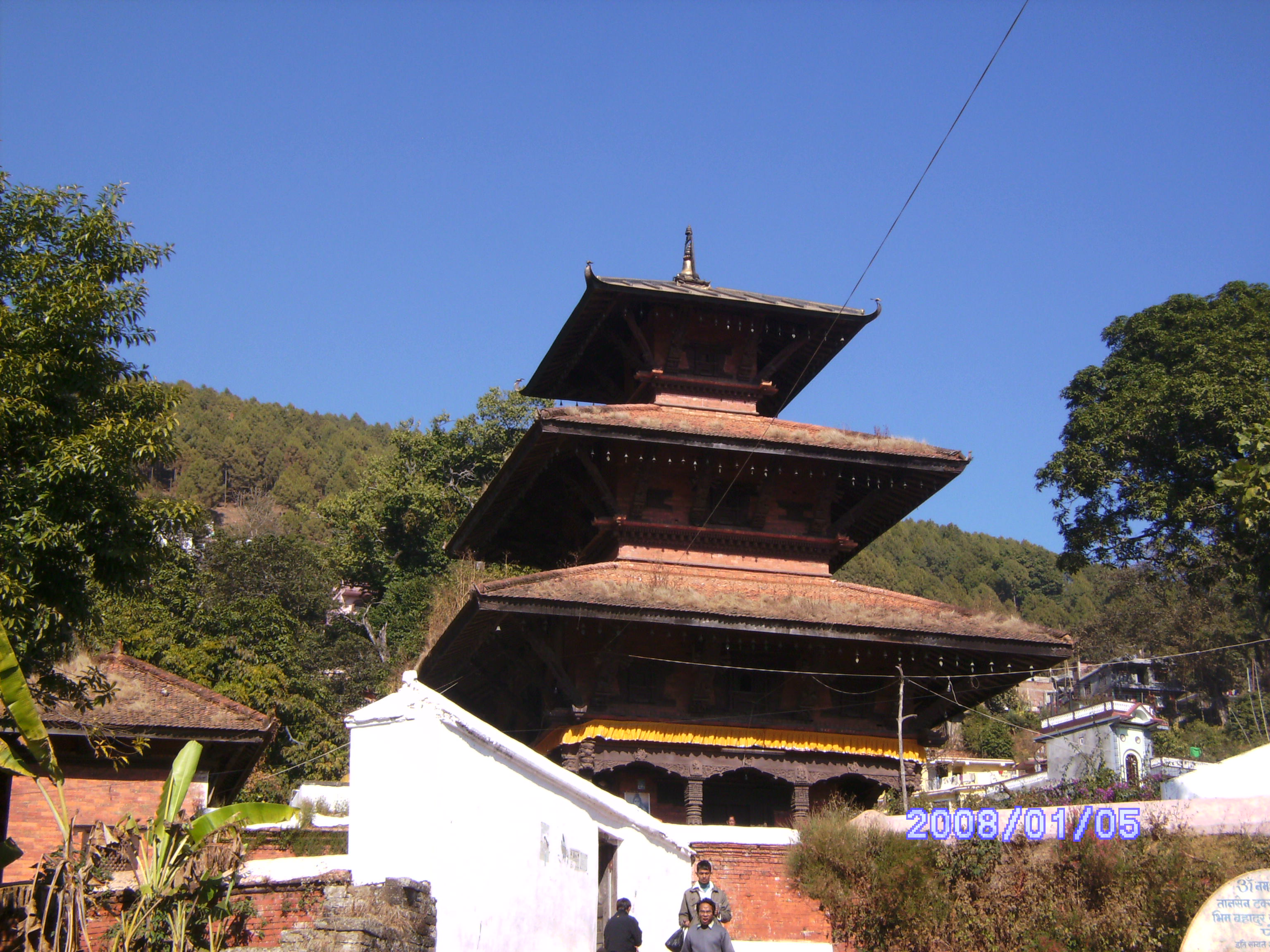 A temple in Palpa district